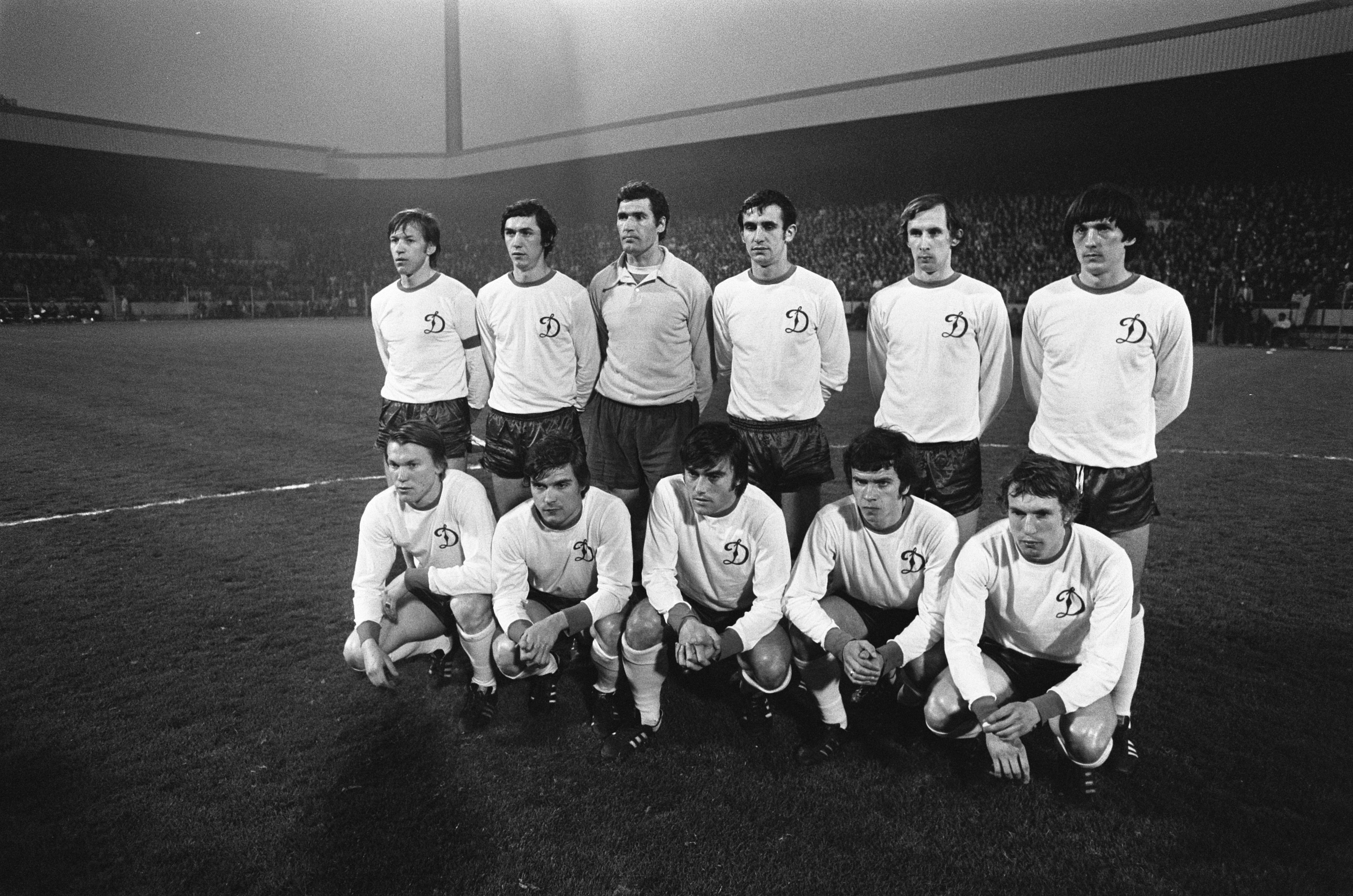 Stefan Reshko, Viktor Kolotov, Viktor Matviyenko, Volodymyr Veremeyev, Yevhen Rudakov, Oleg Blokhin, Anatoliy Konkov, Mykhaylo Fomenko, Volodymyr Muntyan, Volodymyr Troshkin, Volodymyr Onyshchenko